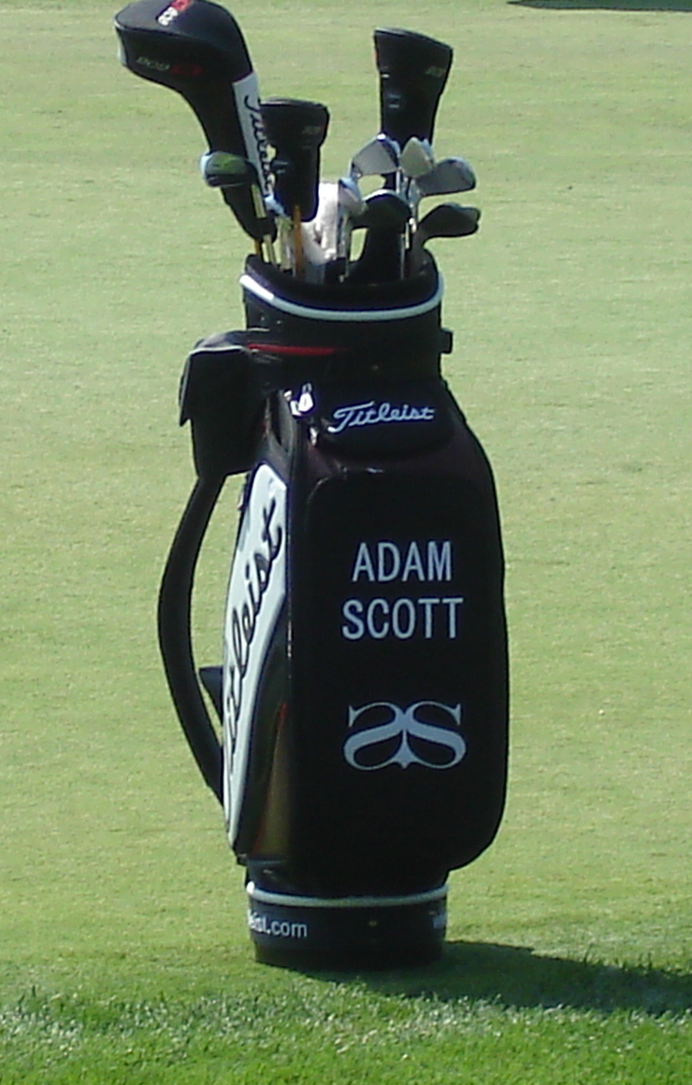 Adam Scott's golf bag at the 2009 PGA Championship at Hazeltine in Chaska, MN